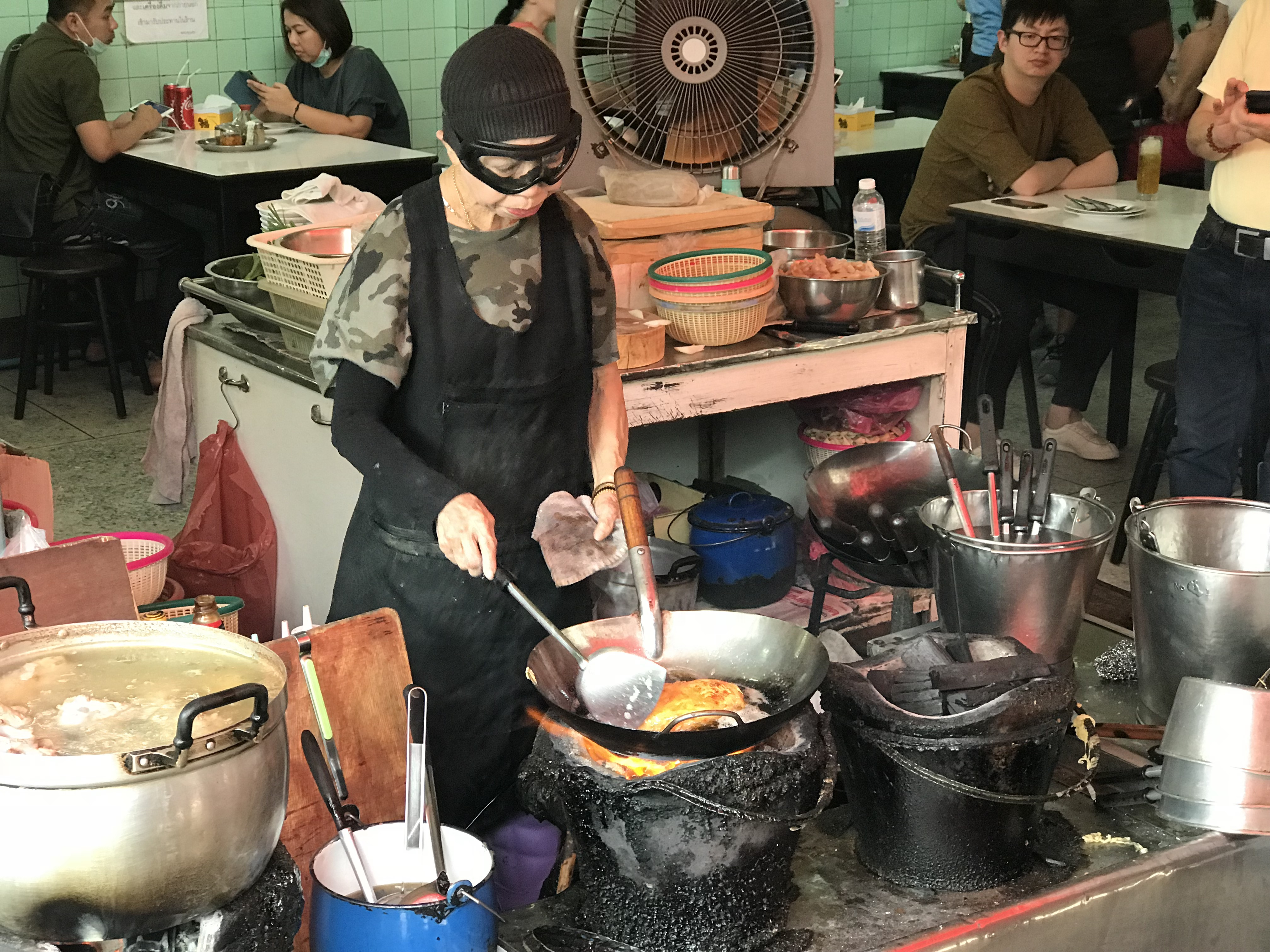 Jay Fai, bangkok 20180406 cooking crab omelette on coal